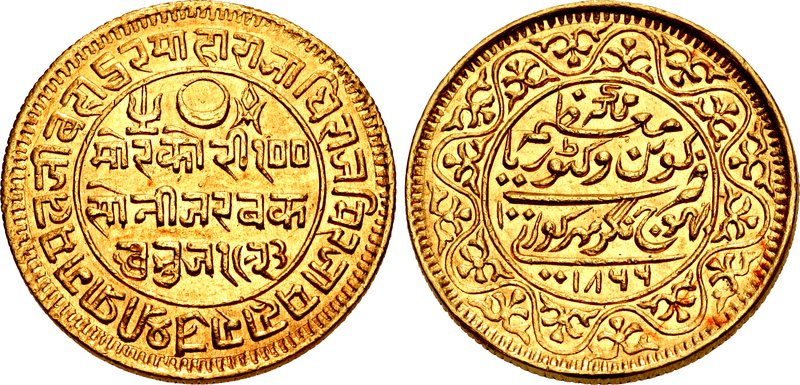 INDIA, Princely States. Kutch. Pragmalji II. VS 1917-1932 / AD 1860-1875. AV 100 Kori (29mm, 18.75 g, 6h). Bhuj mint. Dually dated VS 1922 and AD 1866 (in Eastern Arabic numerals). Name and title in Devanagari and VS date; trisul, crescent, and knife above; all within circular Devanagari legend / Mint formula and couplet in Persian; date below; all within ornate border. Shah 185.1; KM 19; Friedberg 1277. EF.